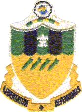 2d Bombardment Group emblem. A copy of this emblem was downloaded from for use in my book “STRATEGIC AIR COMMAND An Organizational History” with the permission and approval of Marvin T. Broyhill. Webmaster.